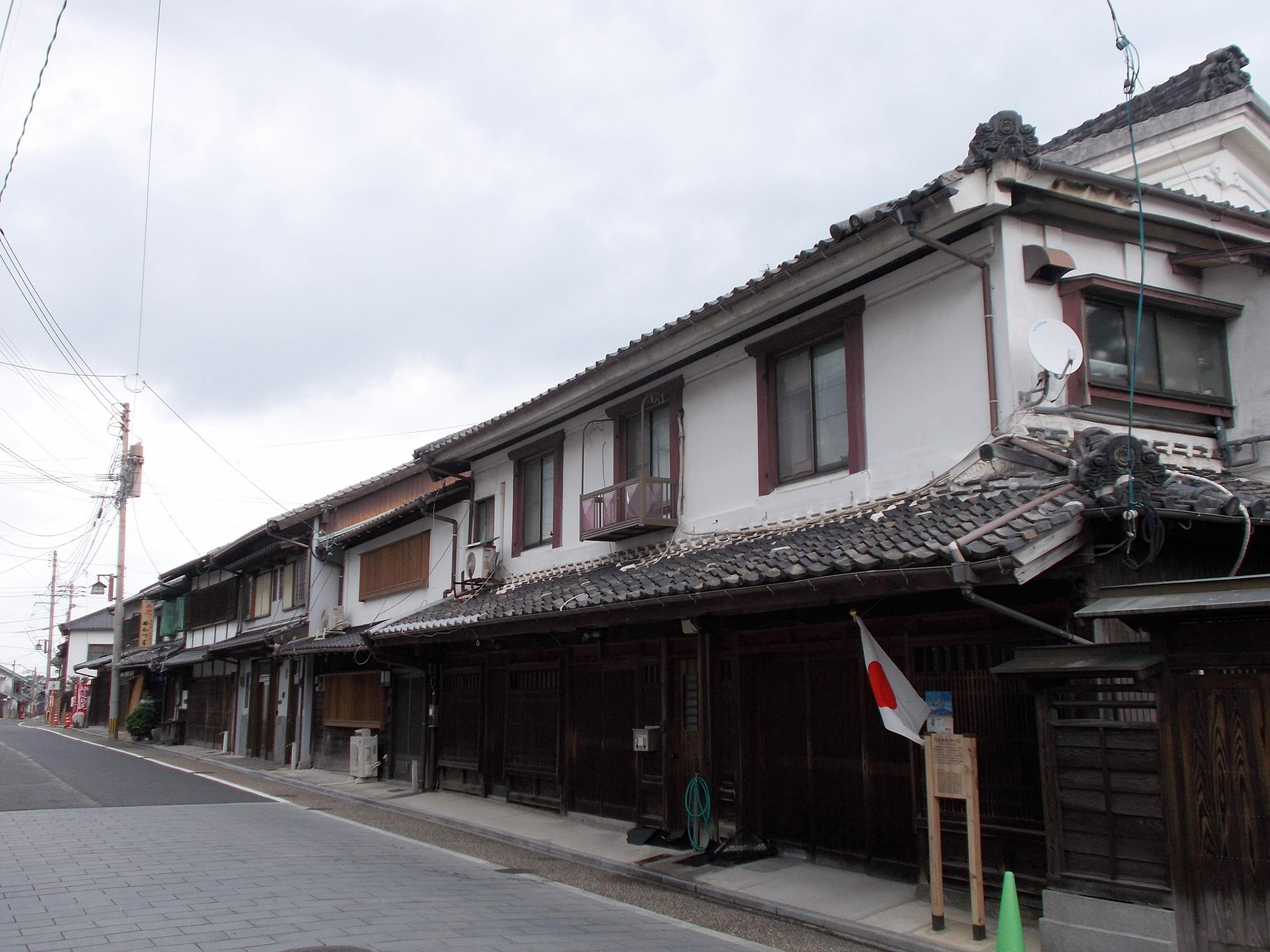 The site of Toiyaba (問屋場跡) in Koyanose-juku on the Nagasaki Kaido, Yahatanishi-ku, Kitakyushu, Japan.